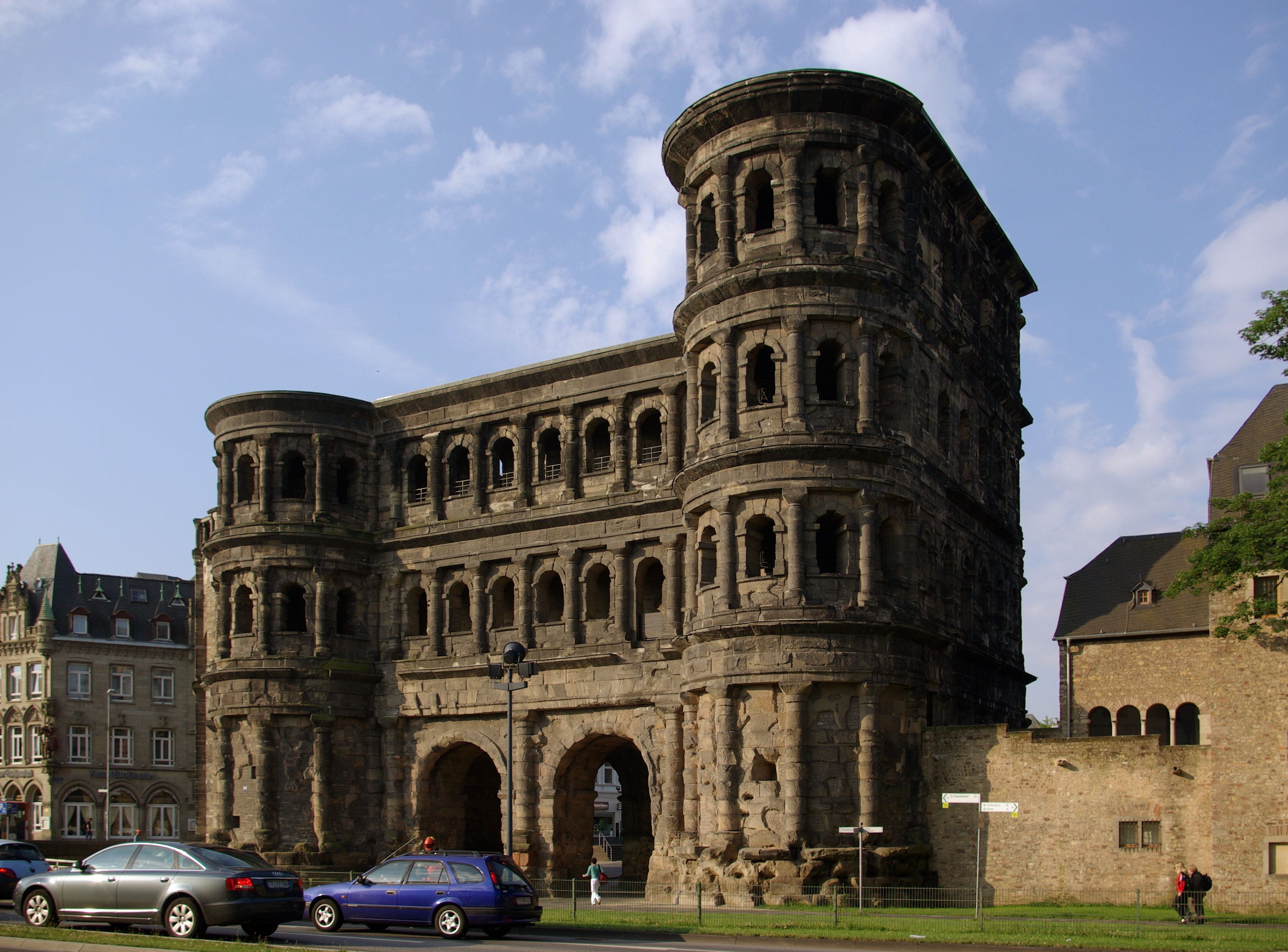 Porta Nigra (Black Gate) in Trier, Germany, best preserved Roman building north of the Alps, and World Heritage Site of UNESCO